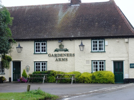 Tostock Villager's own photo of the Gardeners Arms public house in Tostock Suffolk taken May 2007.